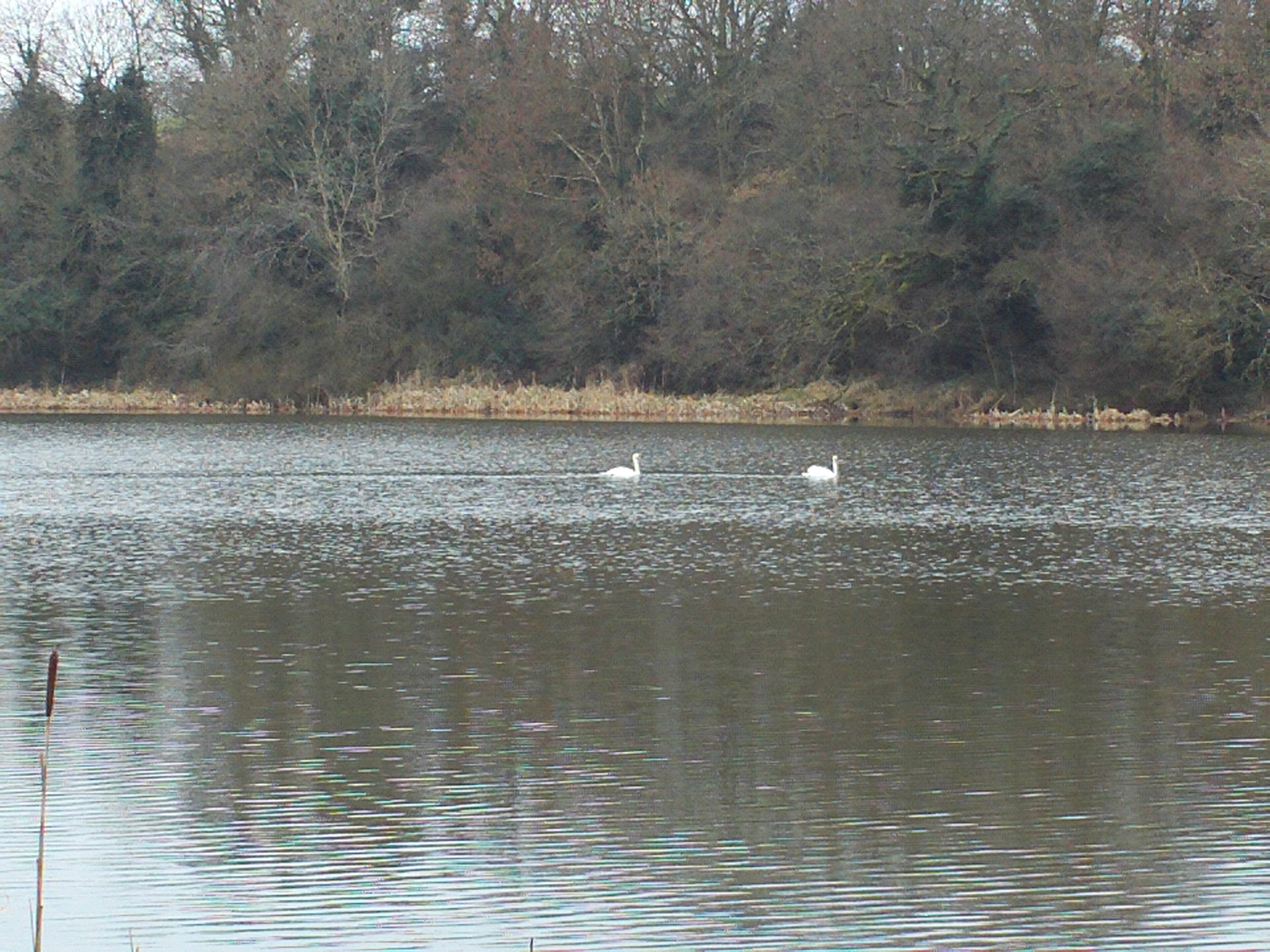 Broadwater, part of the Lagan Navigational Canal (disused) near Aghalee. A path goes along the full canal route from Aghalee village, passing Soldierstown car park, to Moira Railway Station.